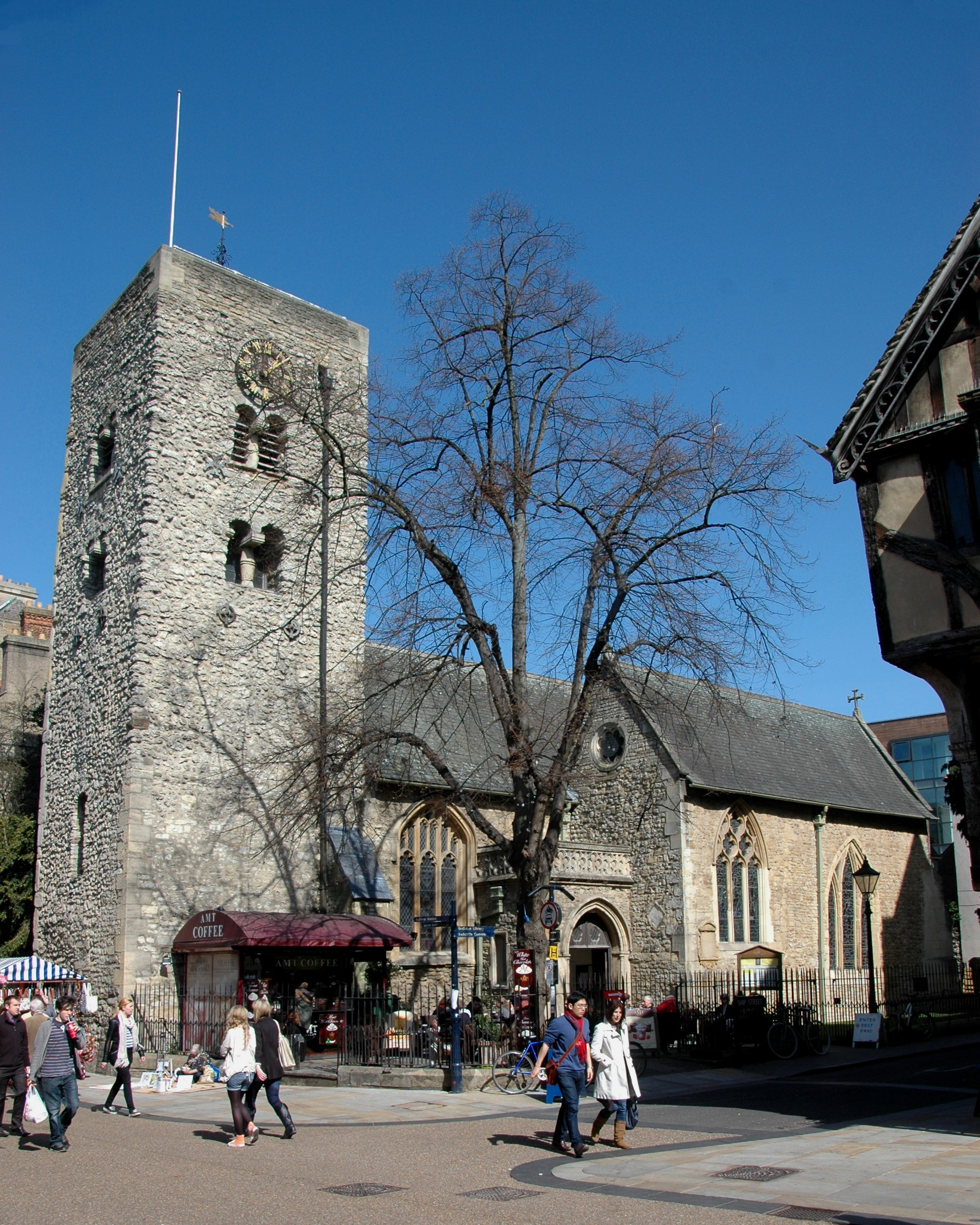 Church of England parish church of St Michael at the North Gate, Cornmarket, Oxford: view from the southwest